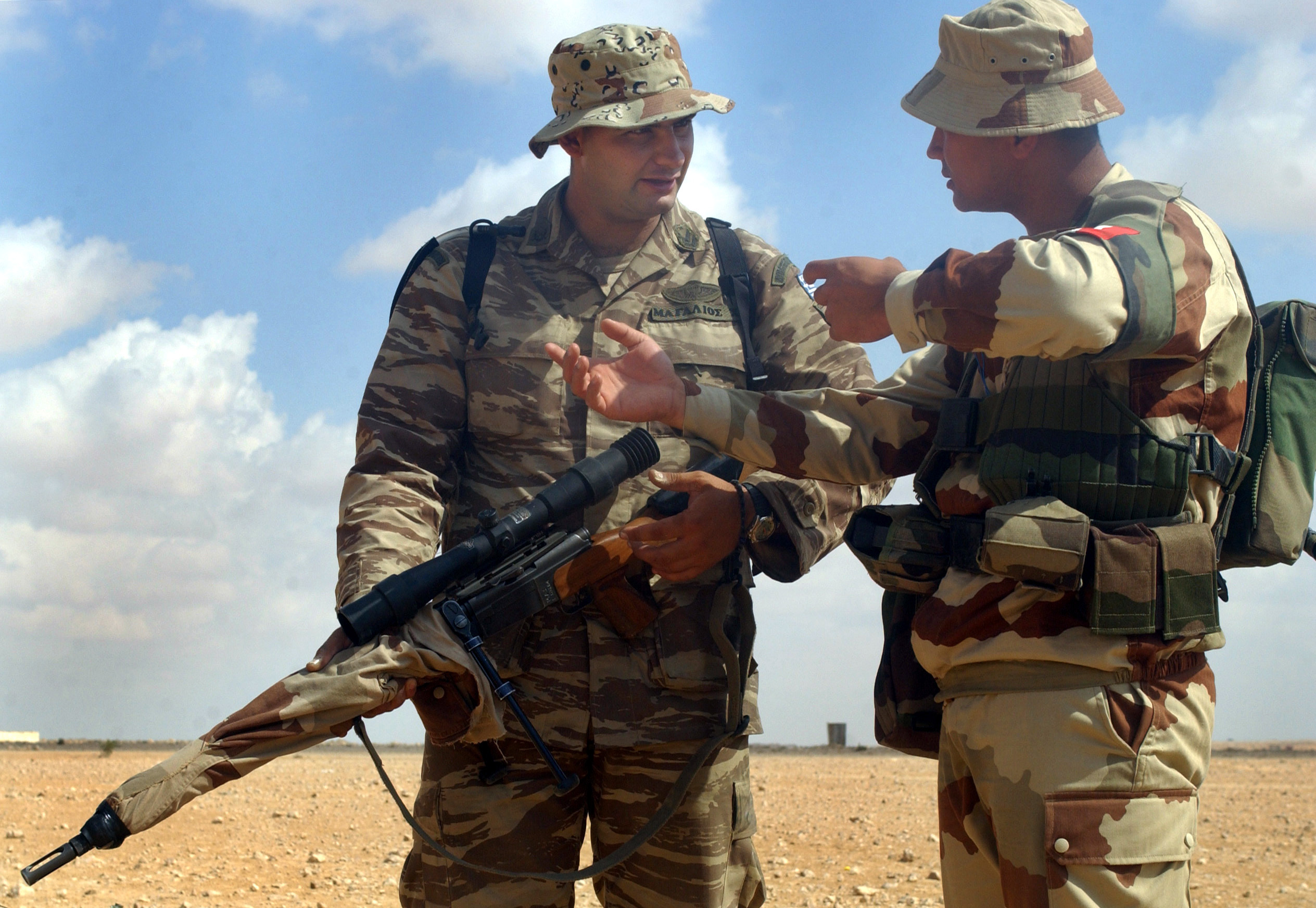 Original caption: "A French sharp shooter explains the capabilities of his FR F2 sniper rifle to a fellow Greek sharp shooter. Military snipers from six countries gathered at the small arms firing range just outside of Mubarak Military City, Egypt, to learn about and shoot each others weapons as part of coalition training for BRIGHT STAR 01-02. BRIGHT STAR 01-02 is a multinational exercise involving more than 74,000 troops from 44 countries that is designed to enhance regional stability and military-to-military cooperation among the US, our key allies, and our regional partners. It prepares US Central Command to rapidly deploy and employ the armed forces to deter aggressors and, if necessary, fight and win side-by-side with our allies and regional partners."